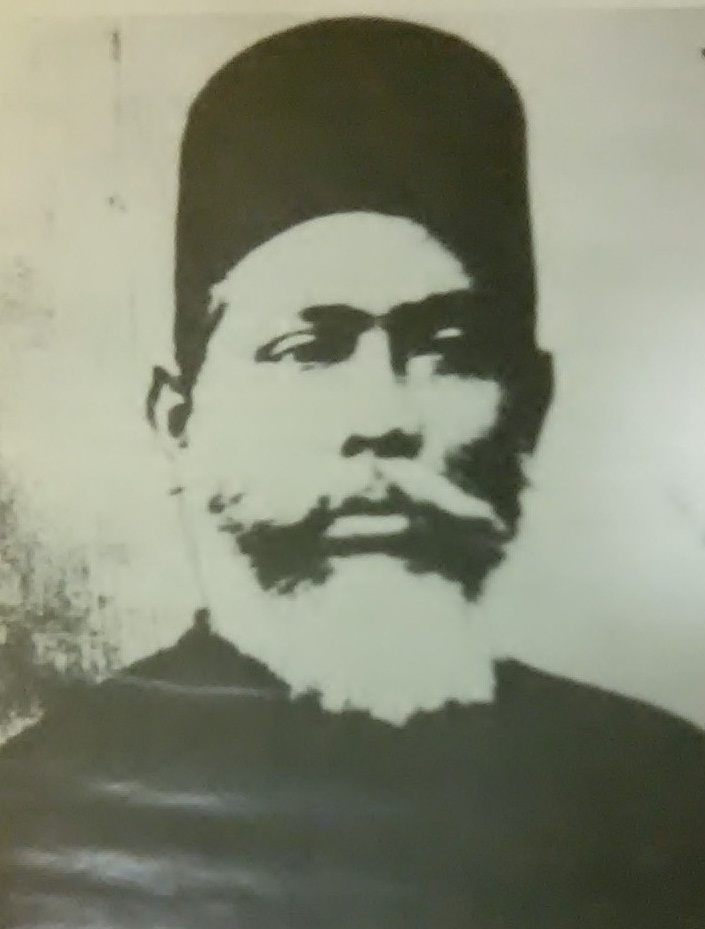 Nawaab Syed Shamsul Huda (This picture was first published on The Calcutta-based Statesman, 10 October 1922)